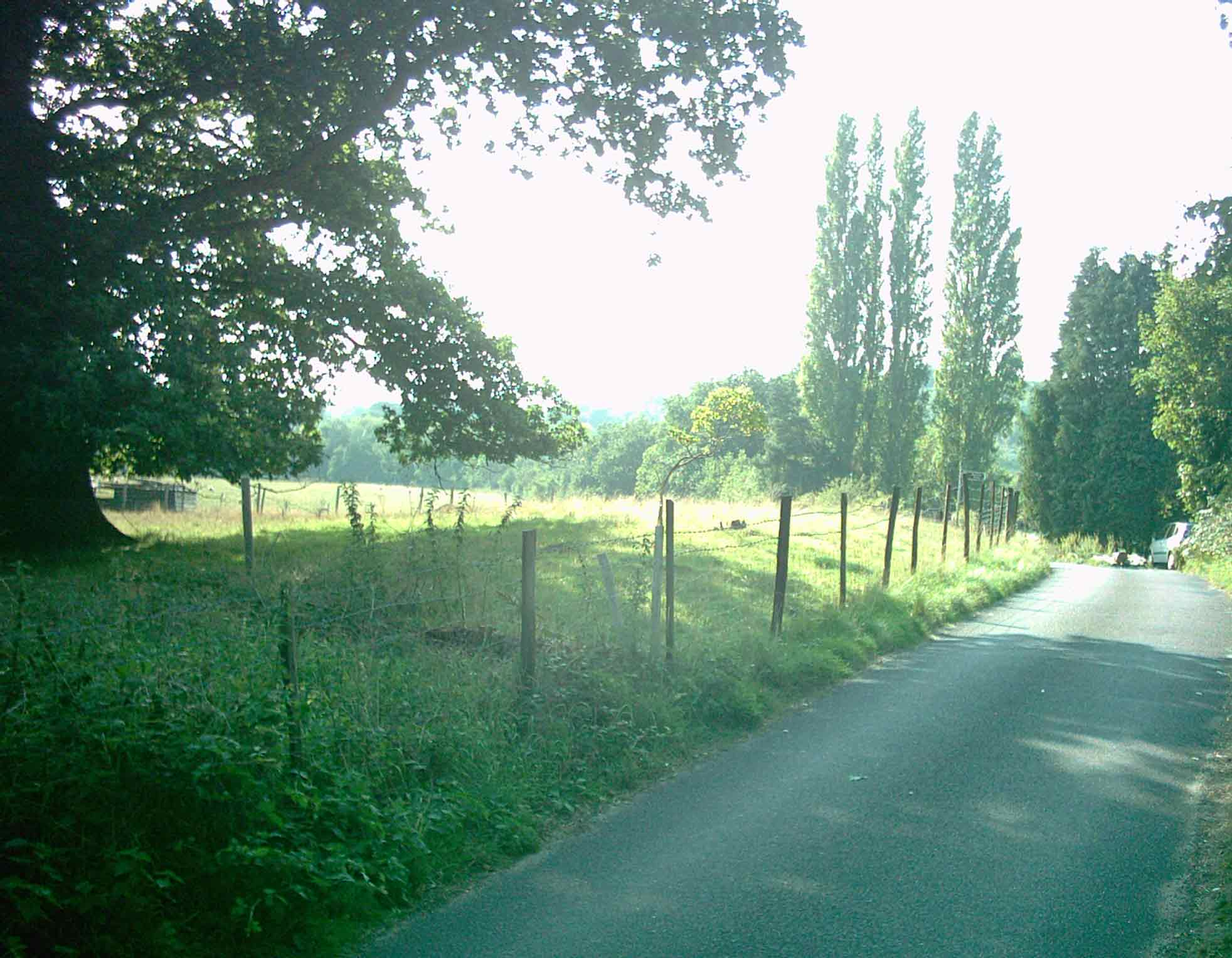 View of the remnant Addington long barrow in Kent which extends away from the camera on the lefthand side of the road between the fence and the tree.